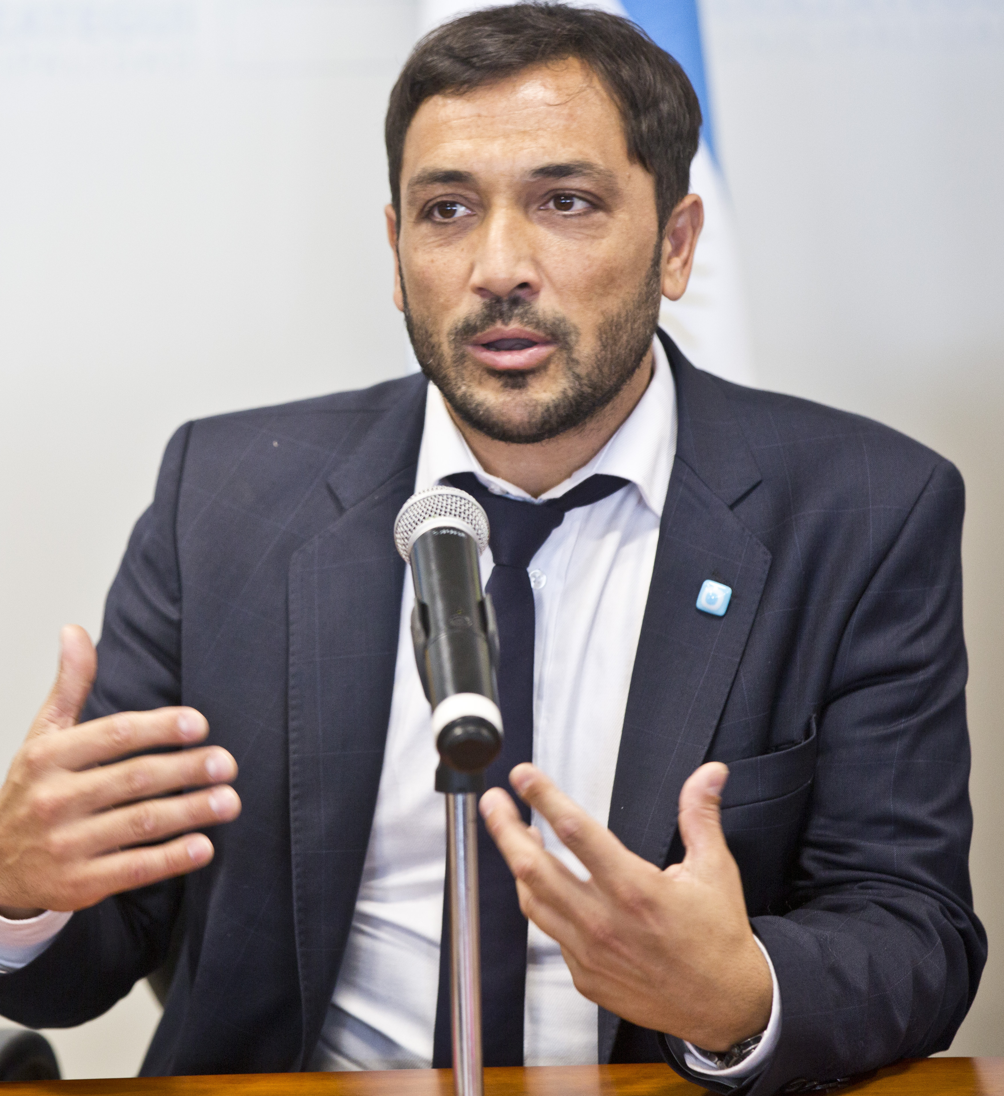 Berazategui, 4 de marzo de 2015 - En un acto encabezado por el intendente de Berazatagui, Juan Patricio Mussi; el secretario de Gestíon Cultural, José Eduardo Spiñeira y la directora nacional de Industrias culturales, Natalia Calcagno se presentó el MICA produce Buenos Aires.Fotos: Mauri Rico - Ministerio de Cultura de la Nación.